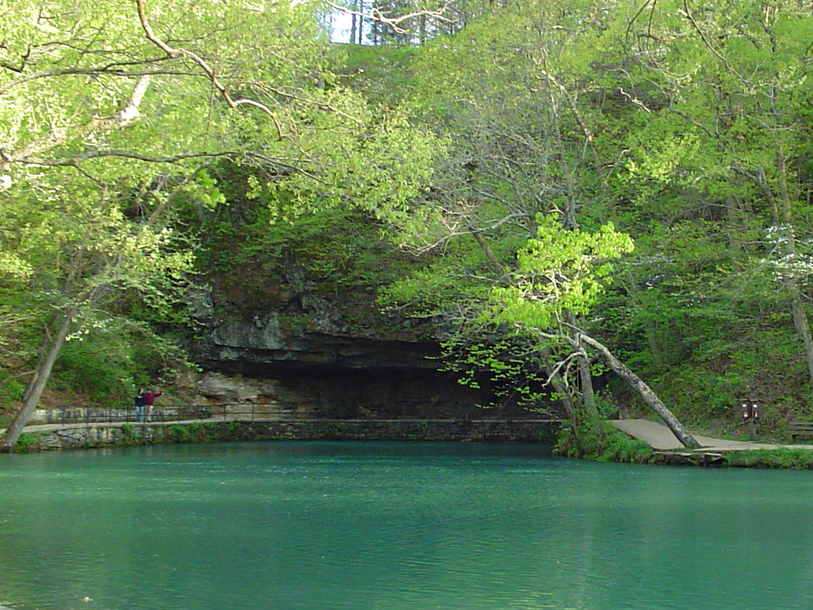 Maramec Spring, a karst spring, east-central Ozarks of Missouri, in springtime. The spring opening is at the base of the bluff below the water surface. The pool is created by two low rock dams impounding the spring's flow. Cropped and saturation adjusted.